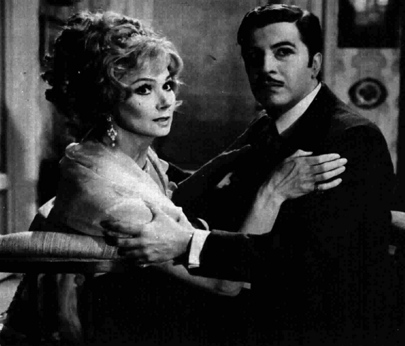 Italian actors Olga Villi and Sergio Di Stefano on stage